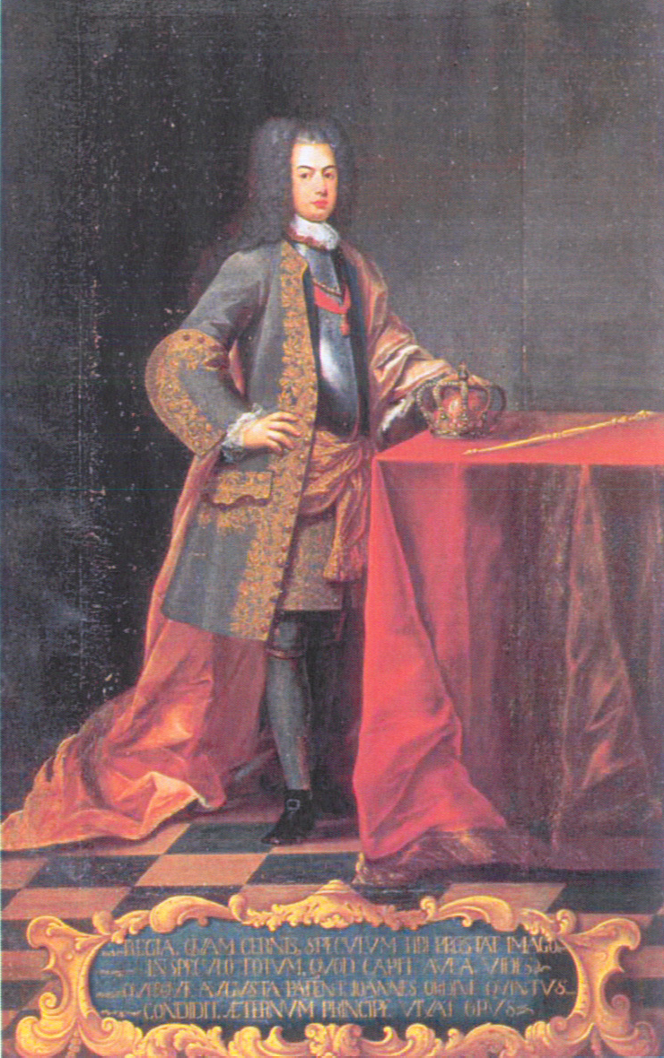 John V, King of Portugal.